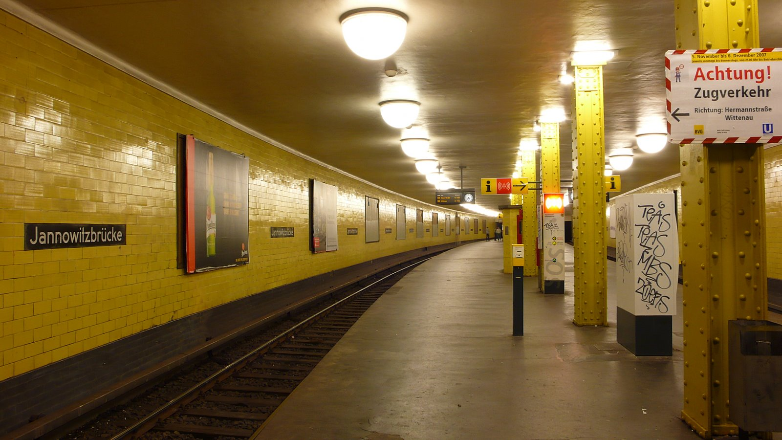 Subway Jannowitzbruecke